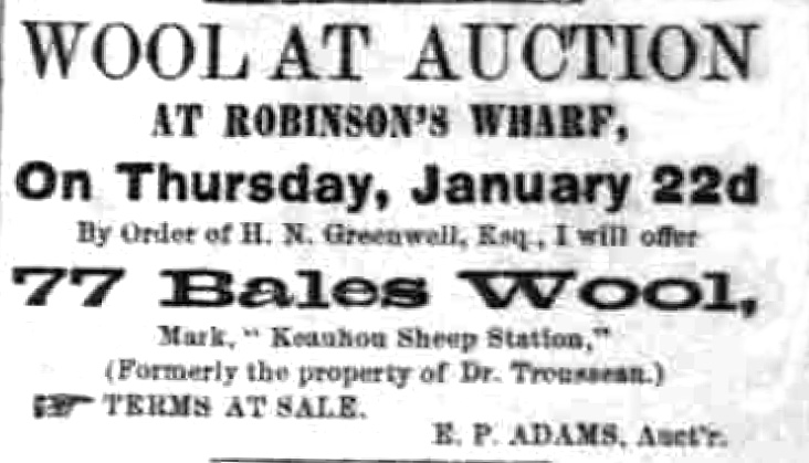 Advertisement from 1880 by Henry Nicholas Greenwell (1826–1891) who was the major landowner in the Kona district of the island of Hawaii. Wool is not a product normally associated with tropical islands.